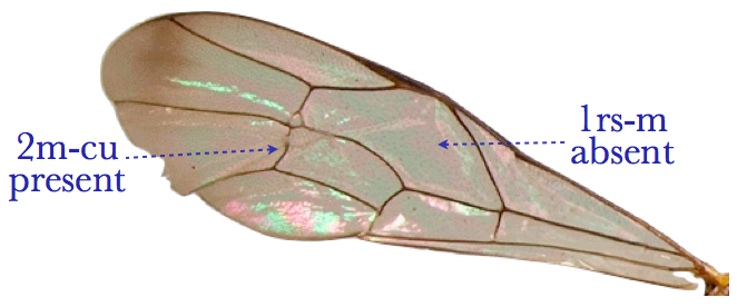 Fore wing of a female ichneumonid (Banchinae: Syzecteus sp) from Kibale National Park, Uganda, 2011. There are two labels helping illustrate the difference between ichneumonid and braconid fore wings.